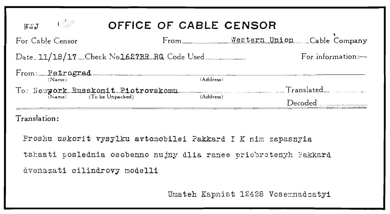 Russian message sent to Yardley's Cipher Bureau for translation, November 1917. Petrograd (Leningrad) is asking New York to expedite the shipment of some Packard automobiles and spare parts.